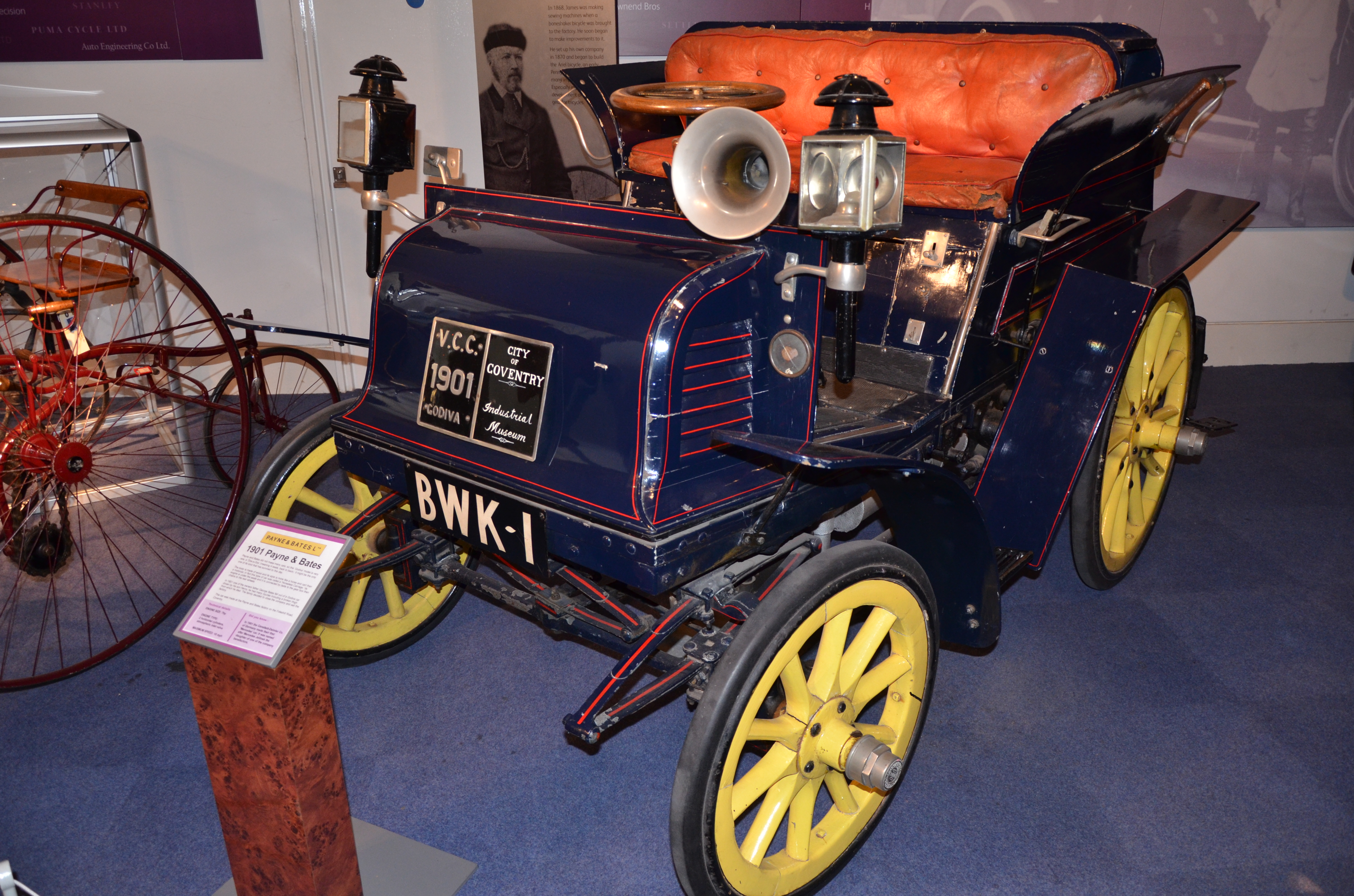 Payne and Bates motorised carriage